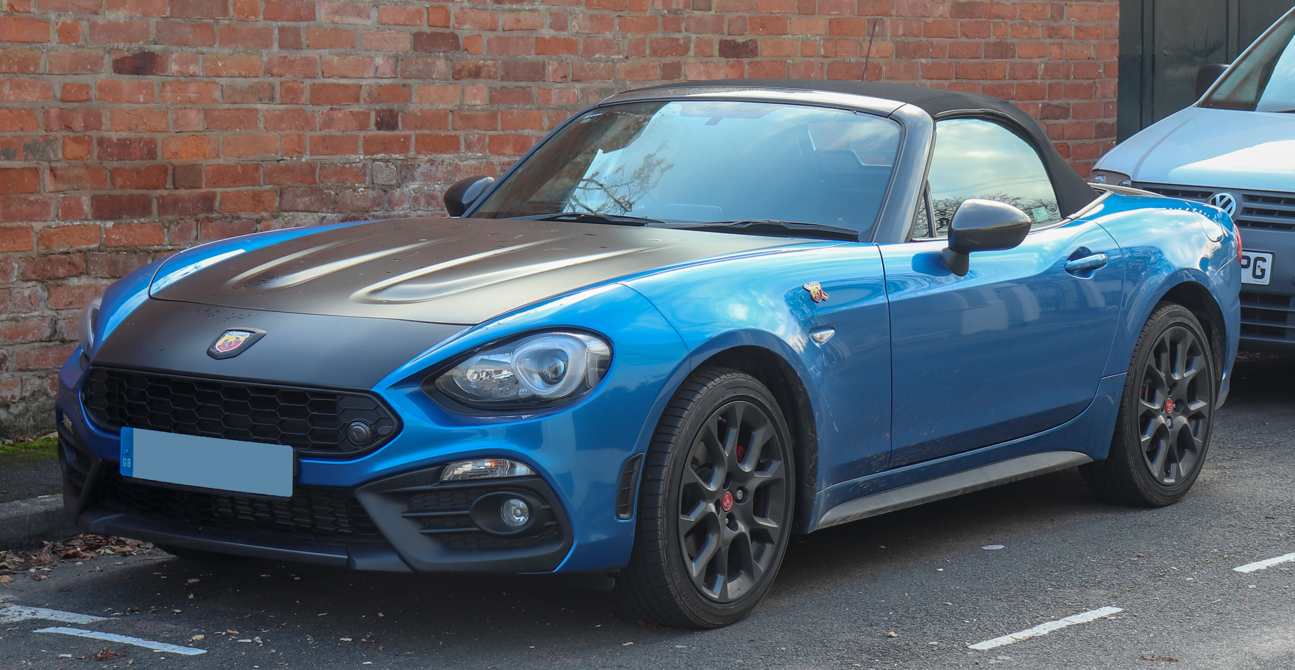 2018 Abarth 124 Spider Multiair 1.4 Front Taken in Leamington Spa